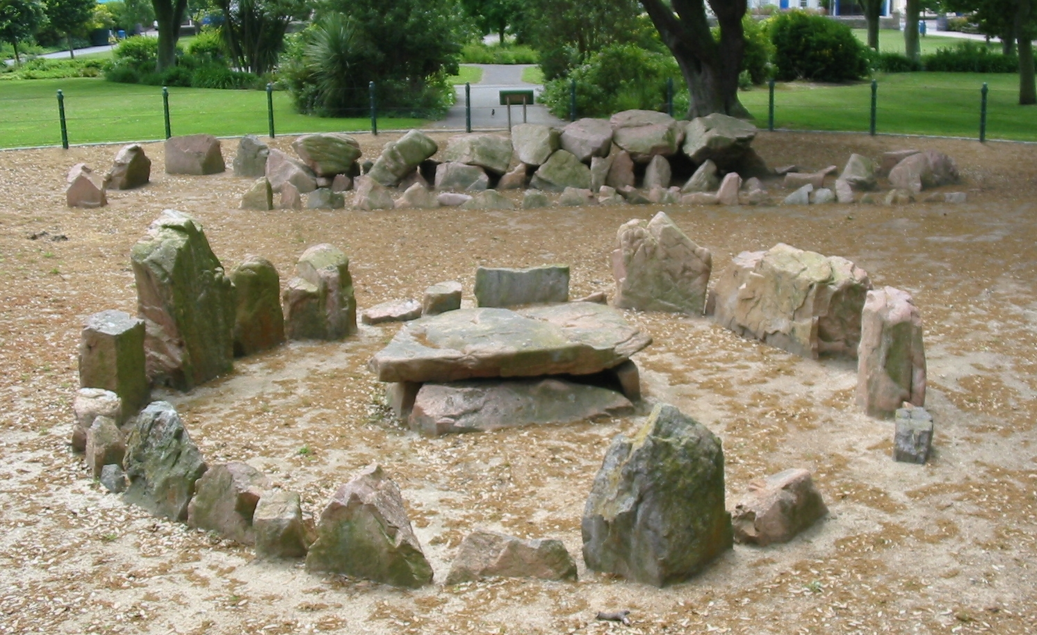 First Tower, Saint Helier, Jersey